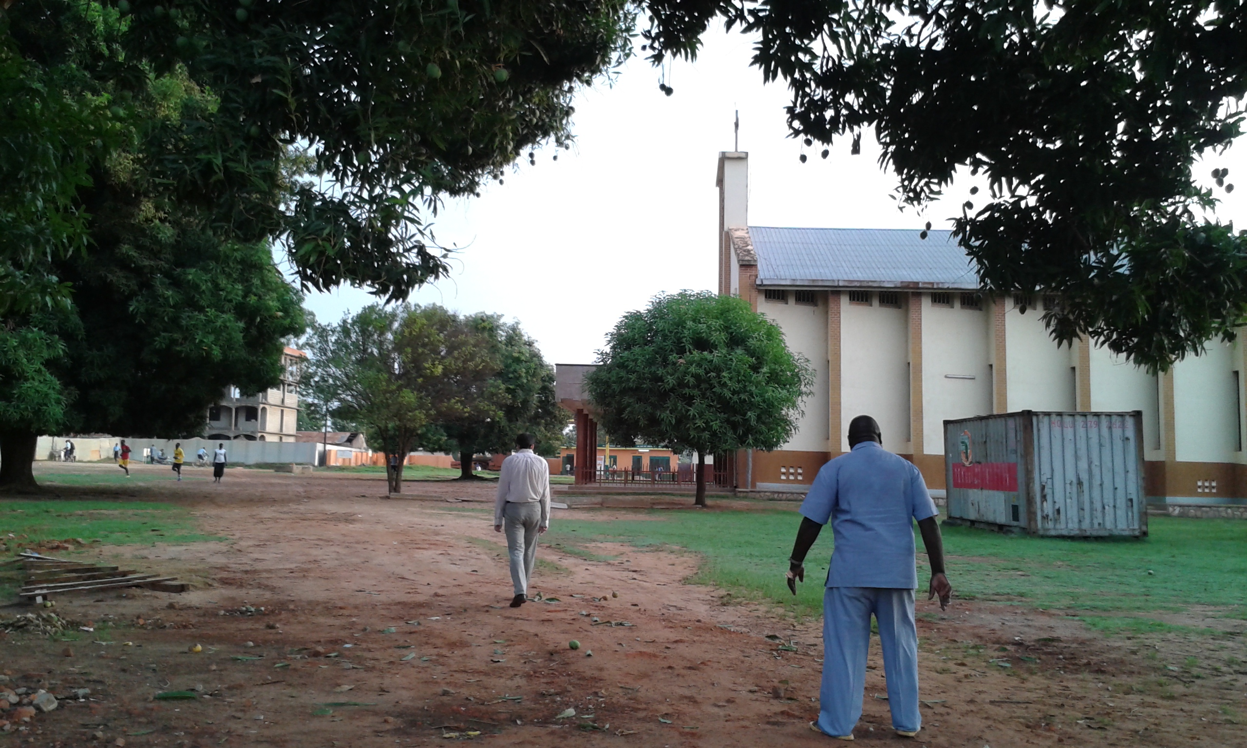 Christ the King church. Cathedral church of the Catholic Diocese of Yei in South Sudan.